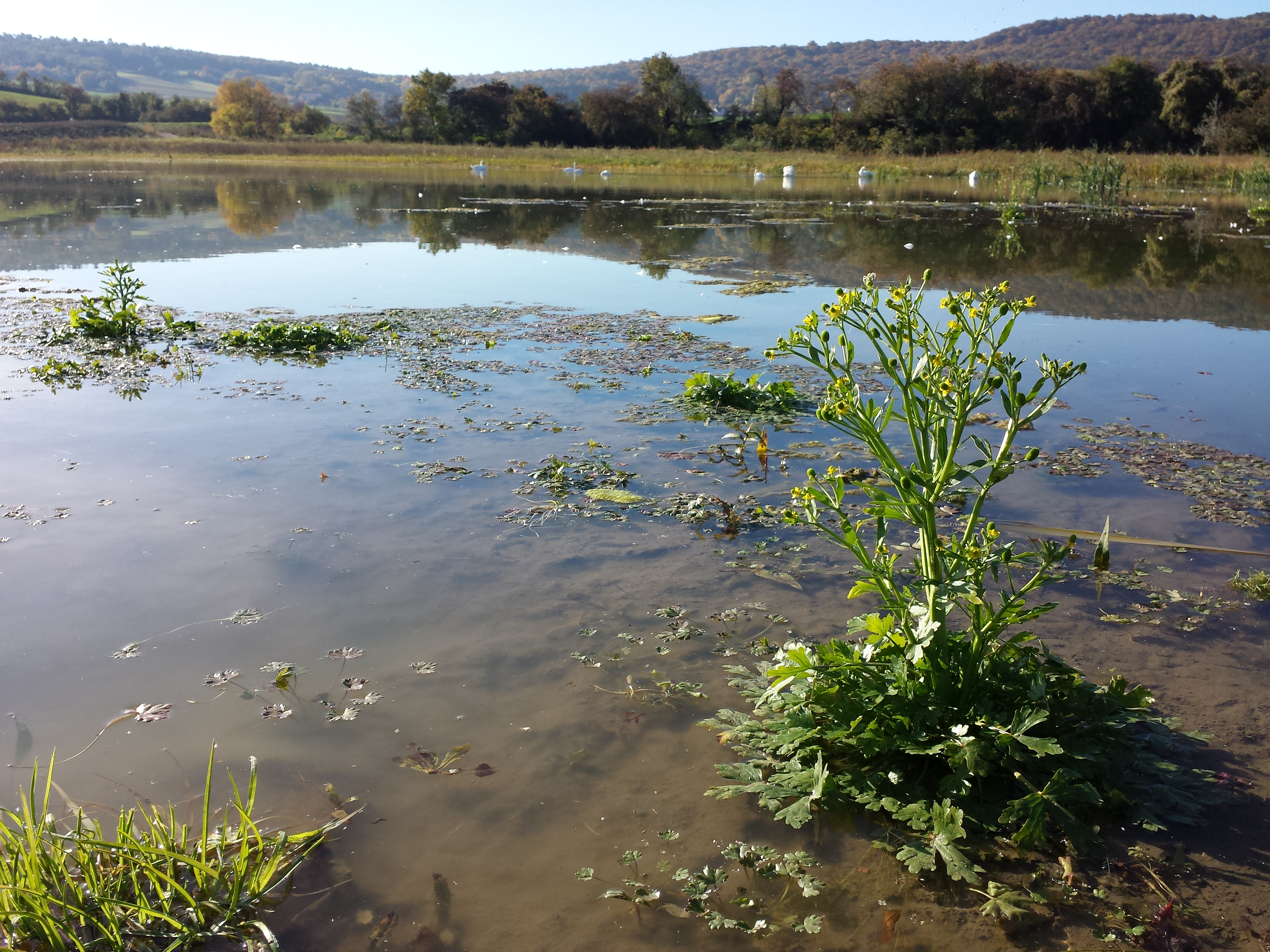 Habitus Taxonym: Ranunculus sceleratus ss Fischer et al. EfÖLS 2008 ISBN 978-3-85474-187-9 Location: pond near Michelstetten, district Mistelbach, Lower Austria - ca. 250 m a.s.l. Habitat: shore of a pond